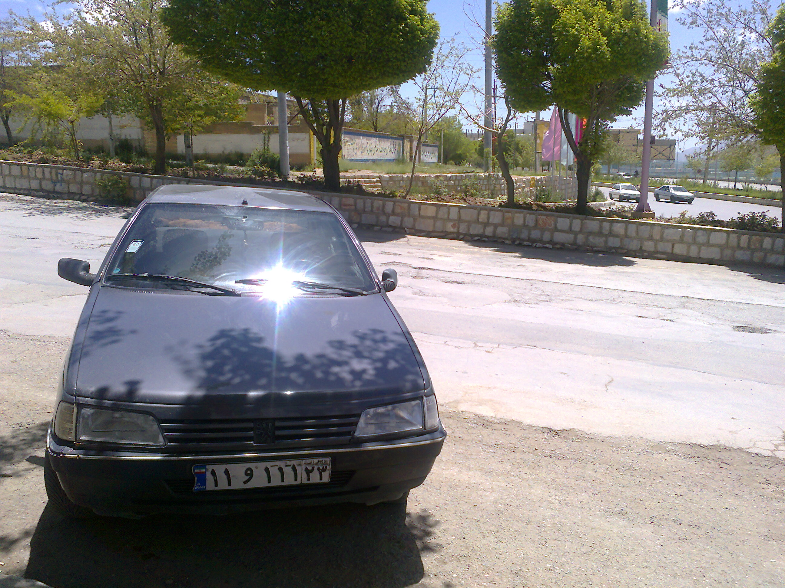 Vanity plate from the city of Fereydunshahr in the Esfahan province